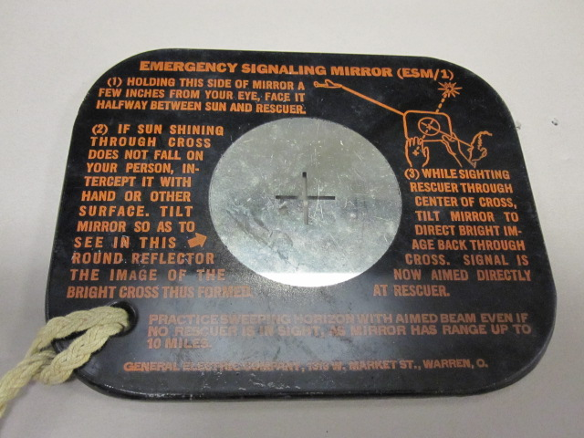 Accession: 2005-58-9 Emergency Signaling Mirror, Bureau of Aeronautics, 5"W x 4"D X 0.25" H Emergency signaling mirror, M-580 issued to pilots for use from 1943 through 1944. Collection of Curator Branch, NaVal History and Heritage Command.